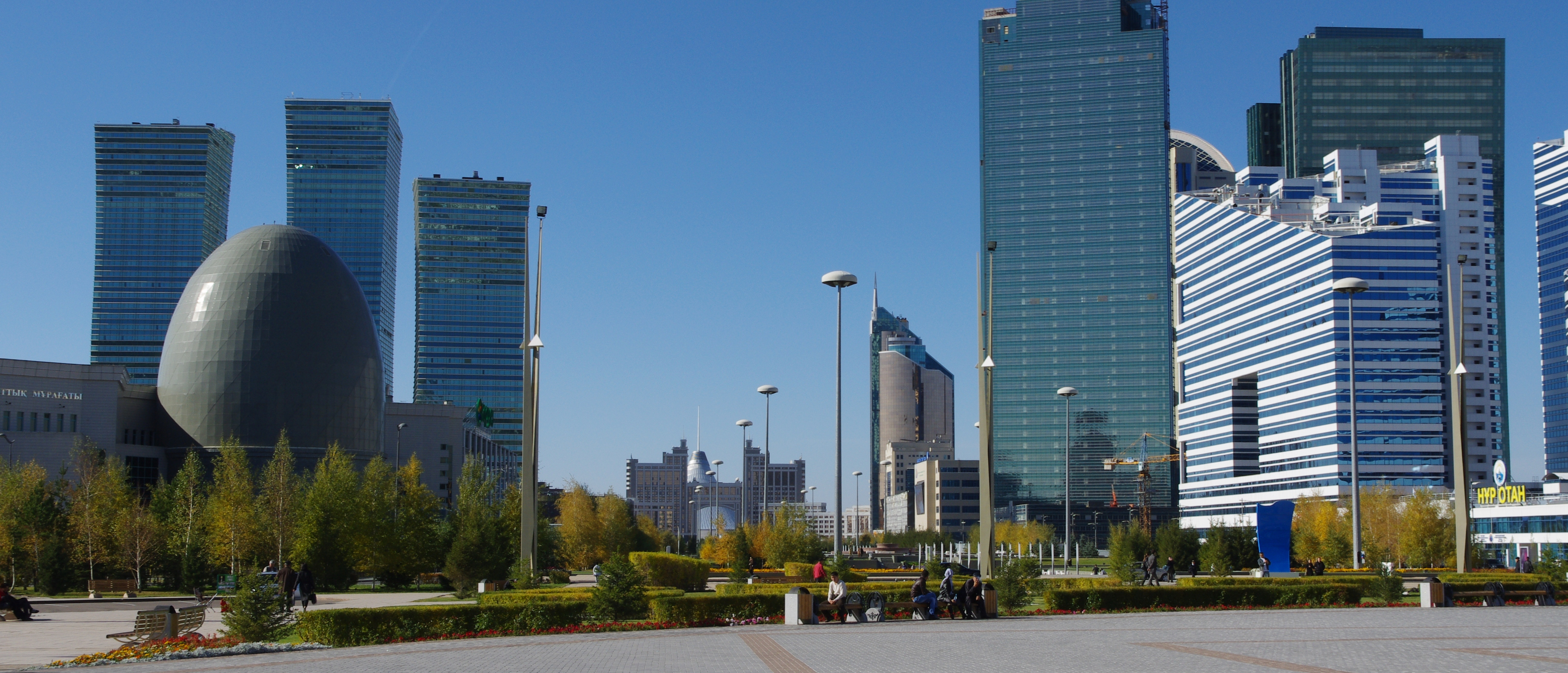 Central Downtown Nur-Sultan: The egg-shaped building is part of the National Archives complex.